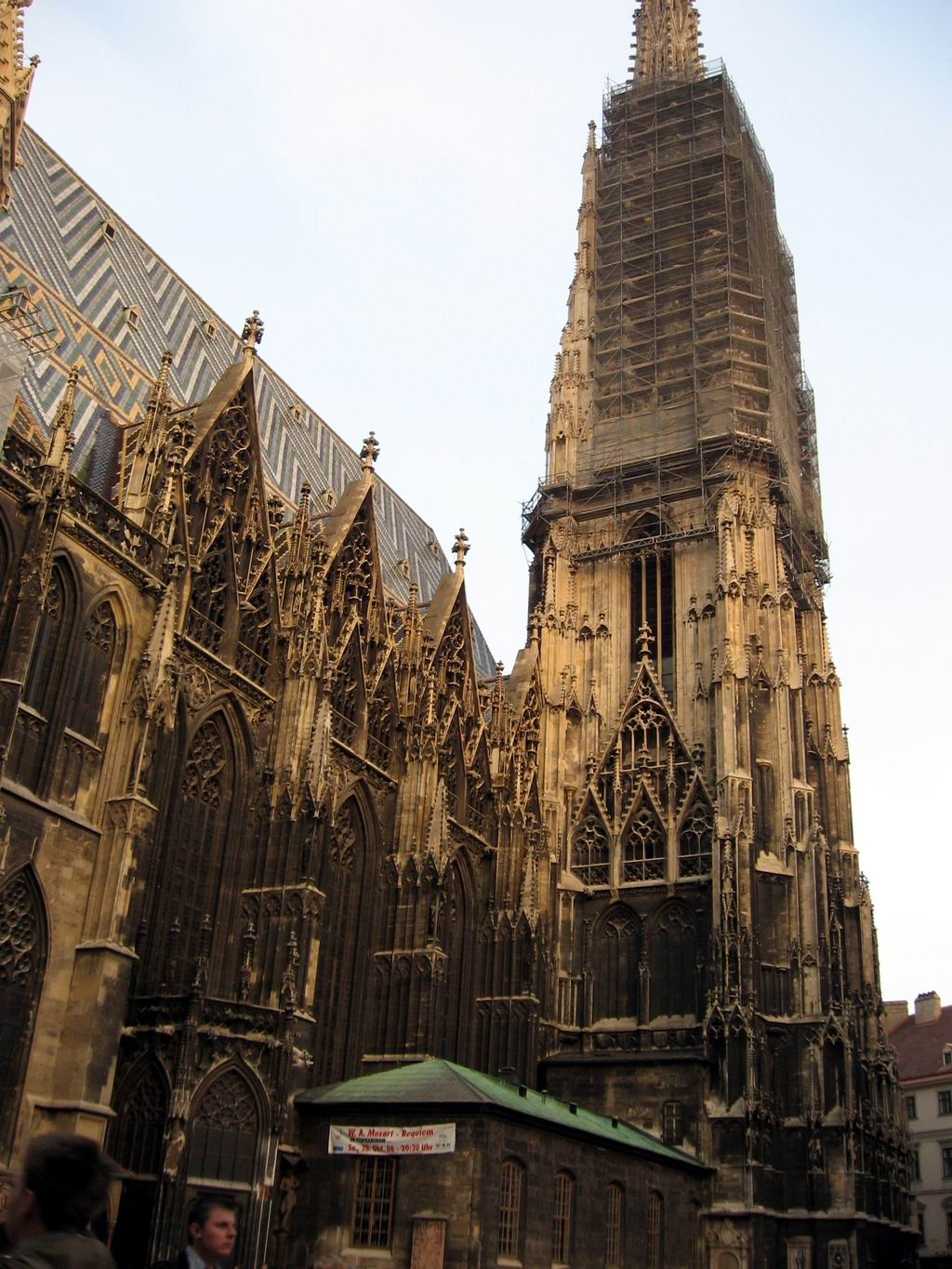 St. Stephen's Cathedral's south tower under renovation in October, 2006.